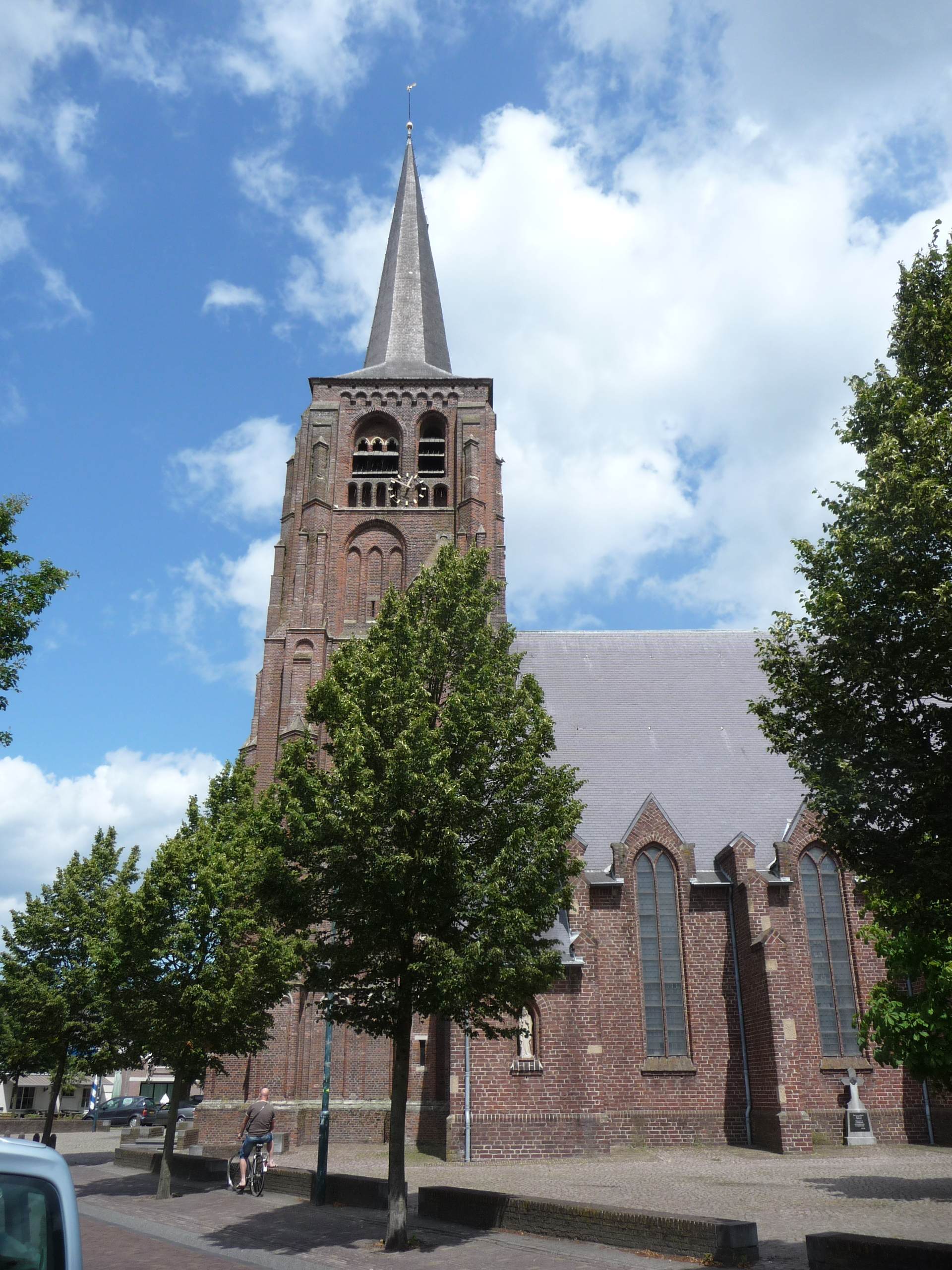 Moergestel